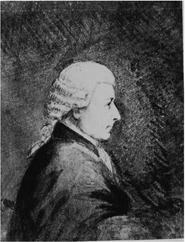 Drawing of David Monypenny, Lord Pitmilly by Robert Scott Moncrieff